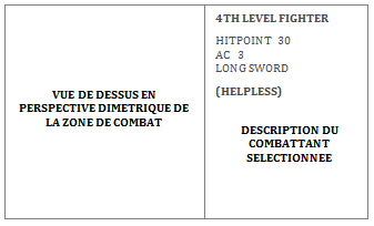 Diagram showing the functionalities of the interface of the battles in the video game Pool of Radiance (1988).